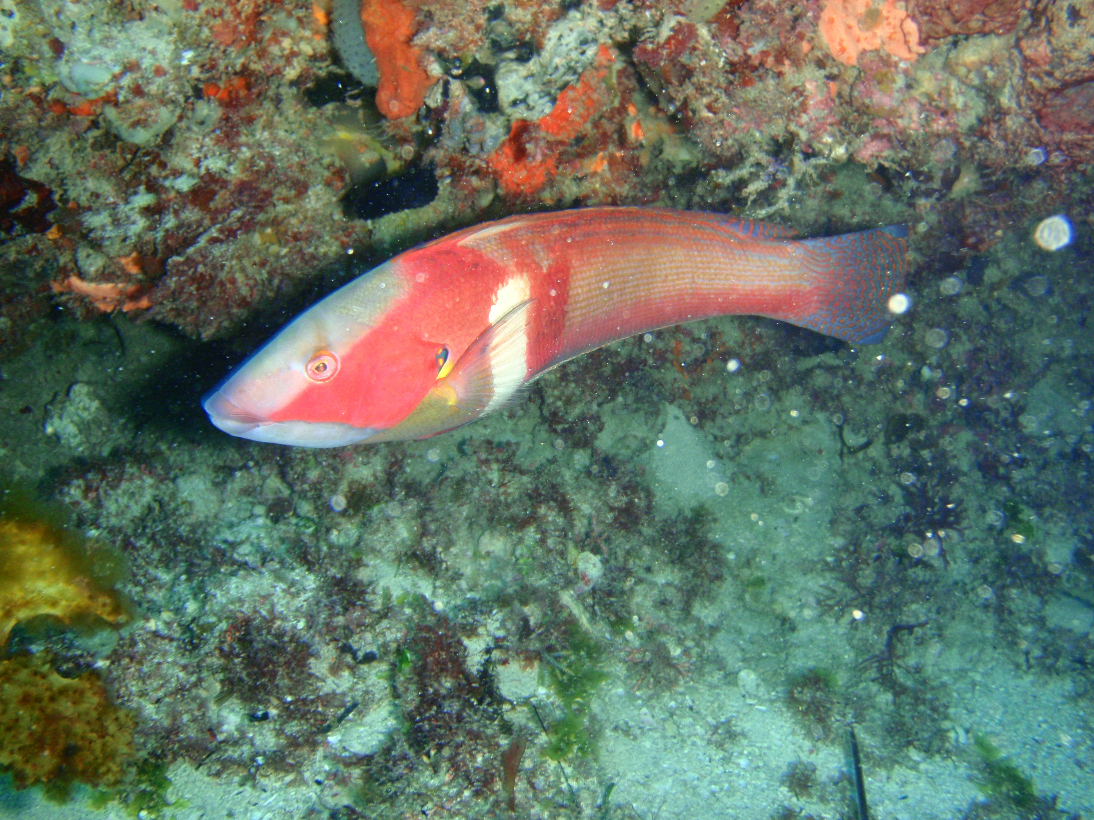 King wrasse Coris auricuaris at Kingston Reef, Rottnest Island